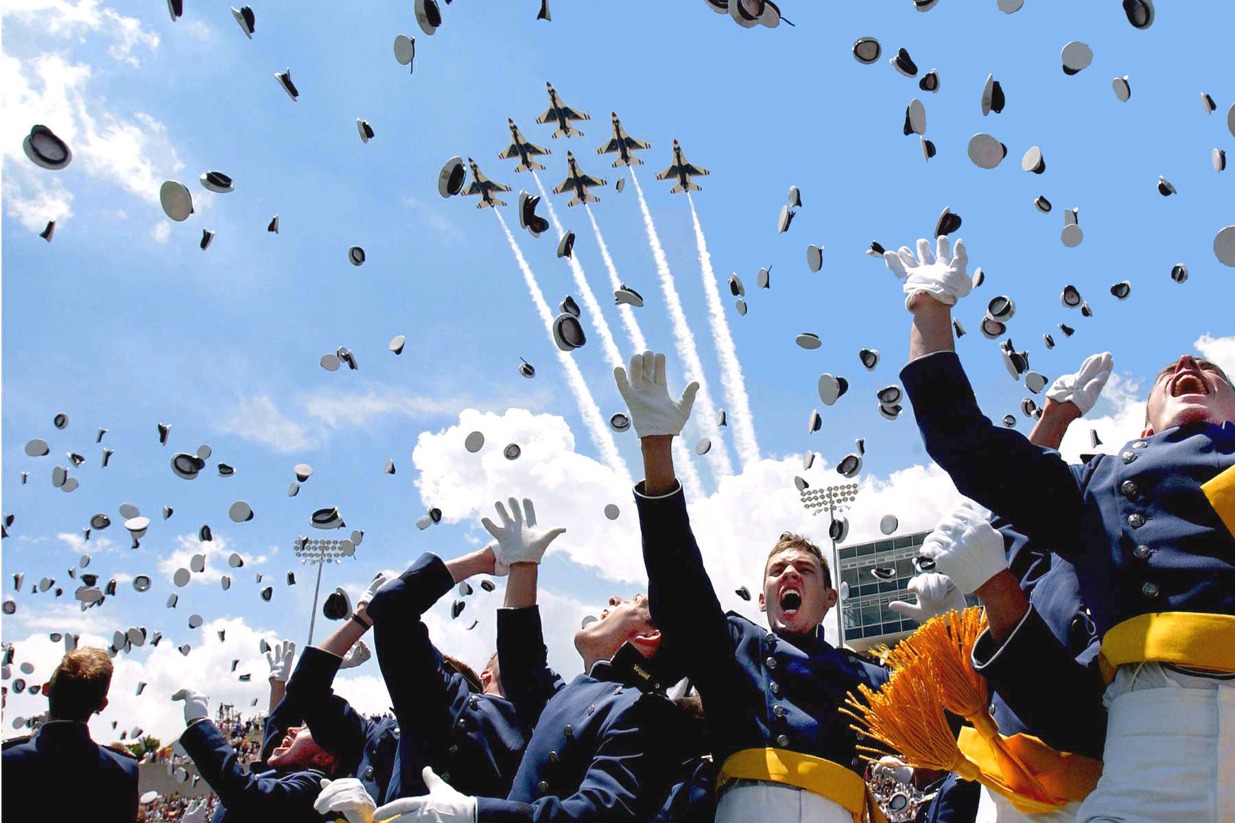 Cadets of the Air Force Academy Class of 2003 celebrate at graduation ceremonies on May 28, 2003 as the Air Force Thunderbirds fly overhead. The 974 students marked the academy's 45th graduating class.